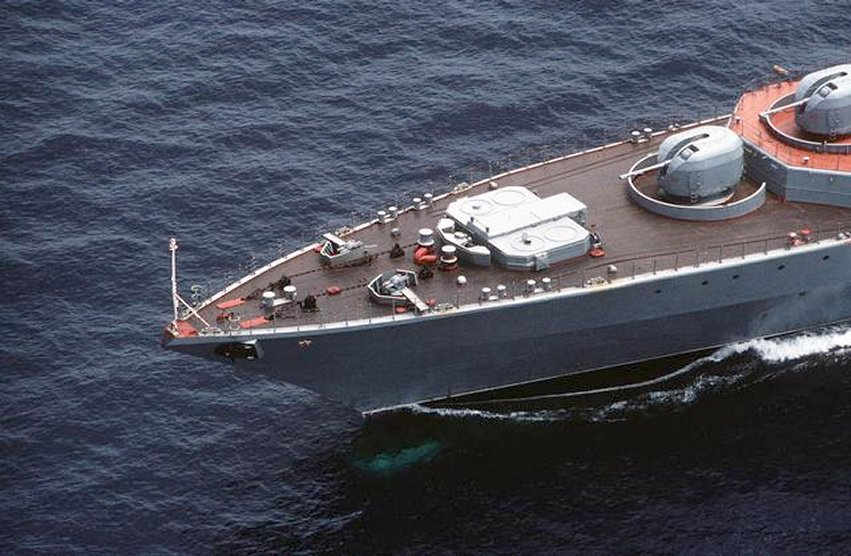 Photographer's Name: Lt. P.J. Azzolina Location: unknown Date Shot: 6/1/1988 Date Posted: unknown VIRIN: DN-ST-88-09298